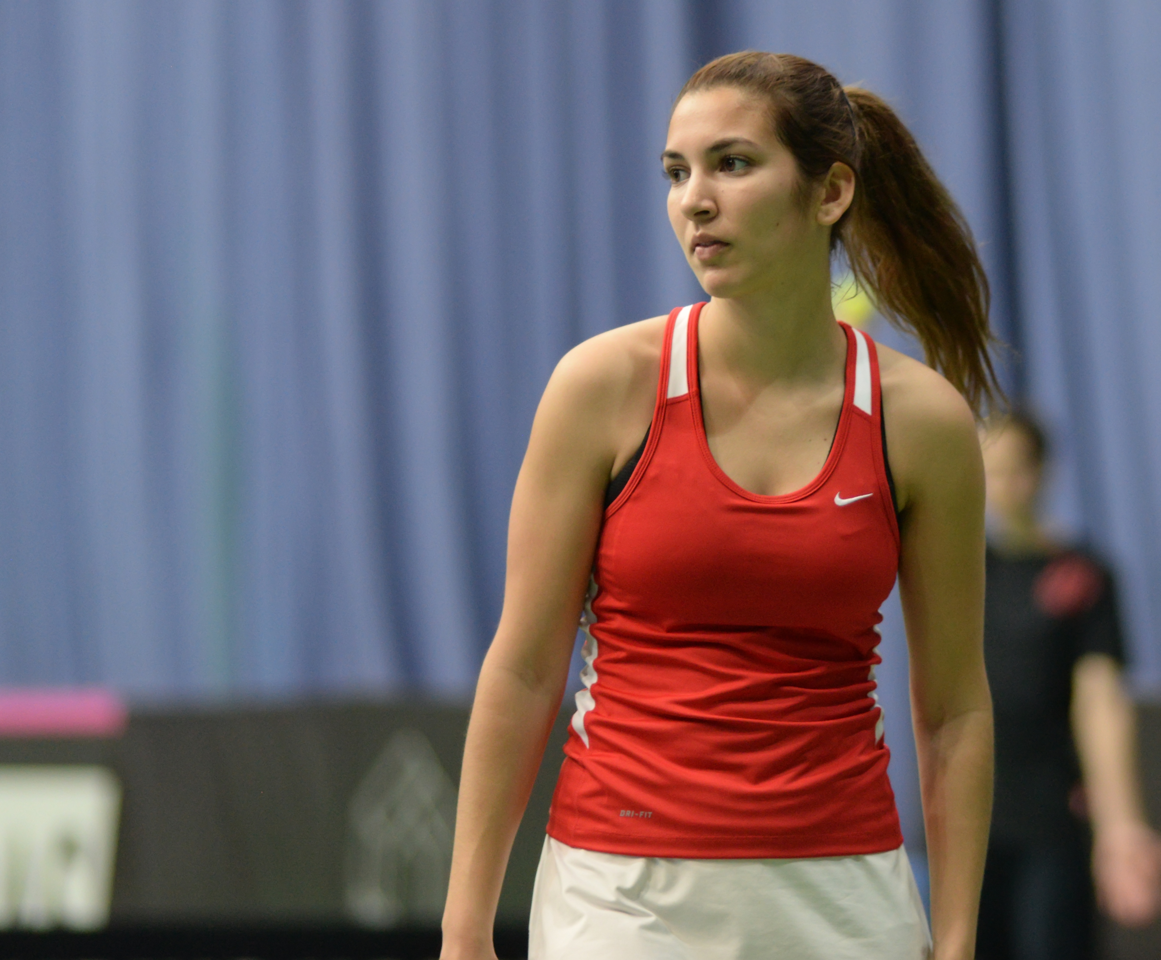 Bárbara Luz at the 2015 Fed Cup